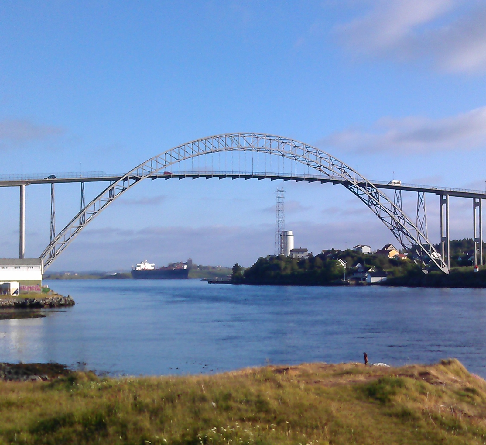 Karmsund Bridge as seen from Norheimsvågen, just north of the bridge.